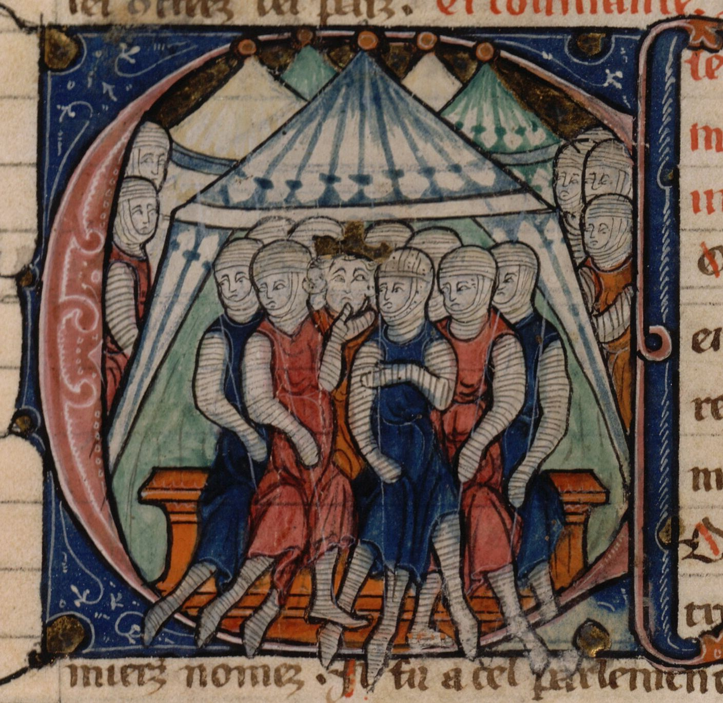 Assemblée d'Acre (1148)